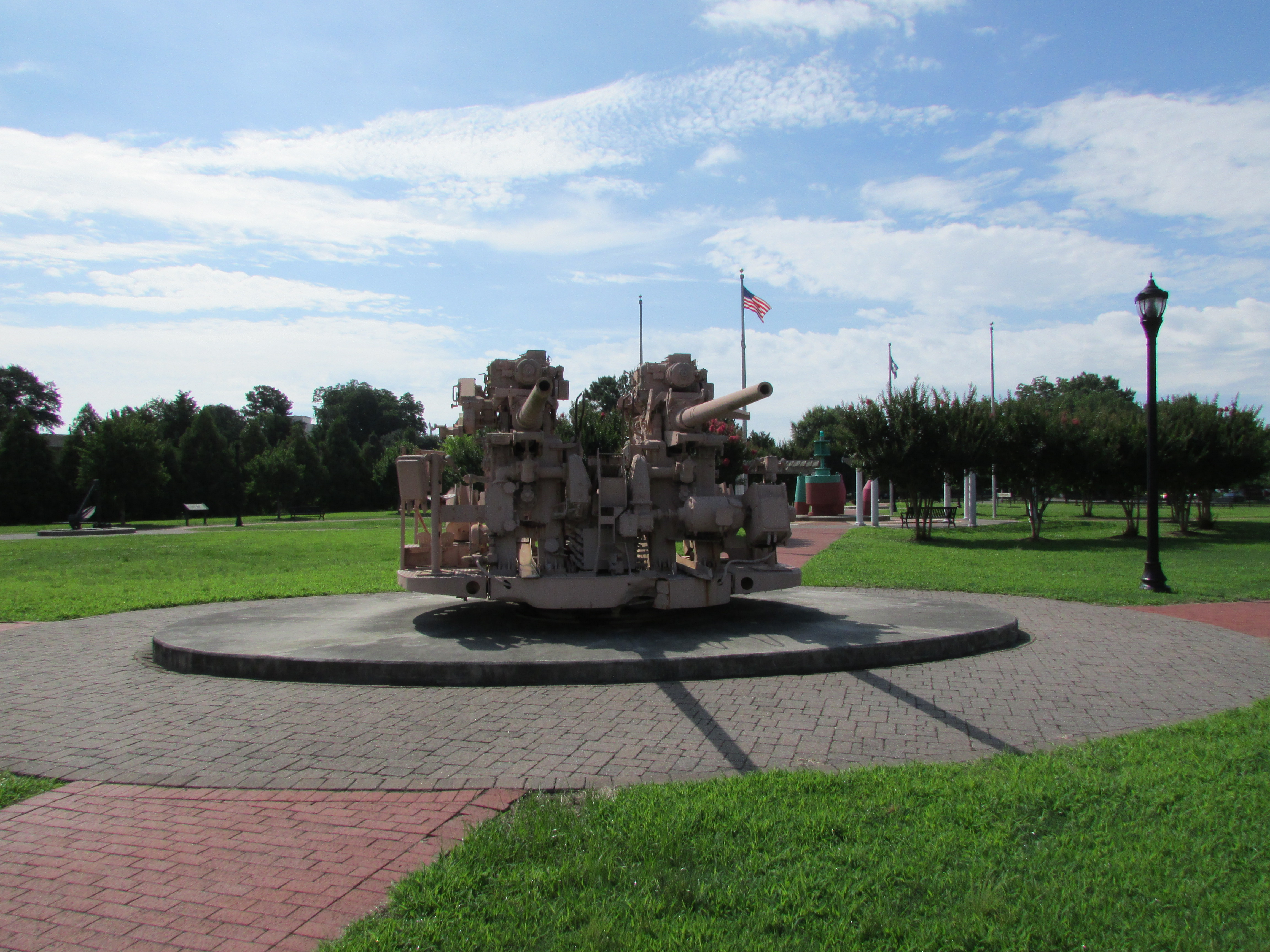 A naval anti-aircraft gun on display at Fort Nelson Park, which is a part of the Portsmouth, Virginia Path of History. Unfortunately, there was no information at the park provided on the origin or use of the artifact.